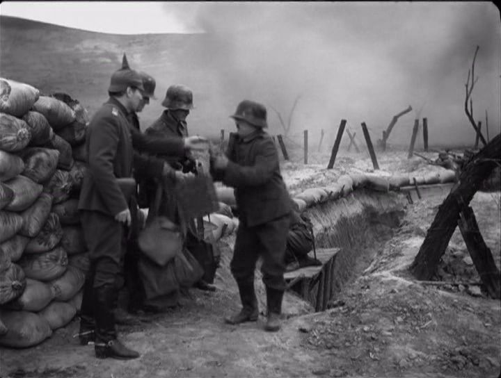 Charlie Chaplin from the film The Great Dictator